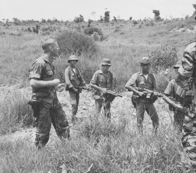 AWM image BUL/68/0864/VN. Phuoc Tuy Province, South Vietnam. 1968-09. Warrant Officer (Shorty) Turner, 21, of Perth, WA (left), speaks to three armed Vietnamese soldiers during field training in long range reconnaissance patrolling. Five members of the Australian Army Training Team Vietnam (AATTV), were involved in teaching these tactics.